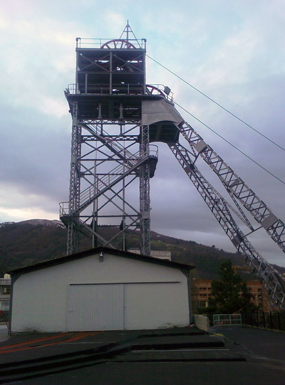 Headframe of Barredo pit (Mieres, Asturias, Spain)